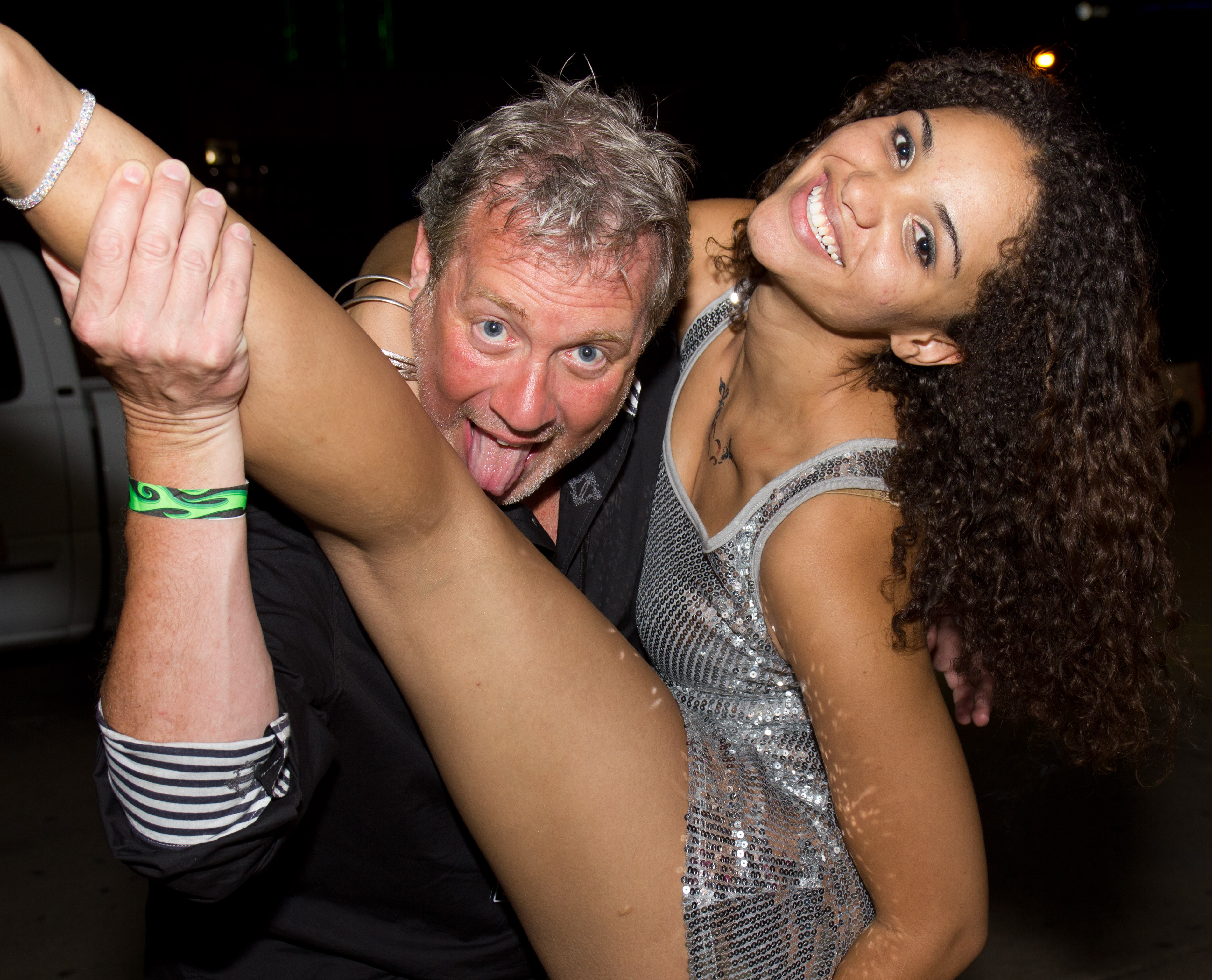 Erica with Jon St. John